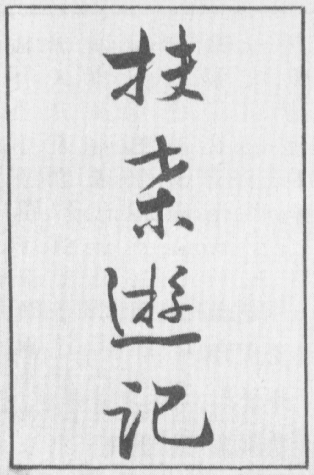 Travel to Japan 扶桑游记 1879 by 王韬 (Wang Tao)